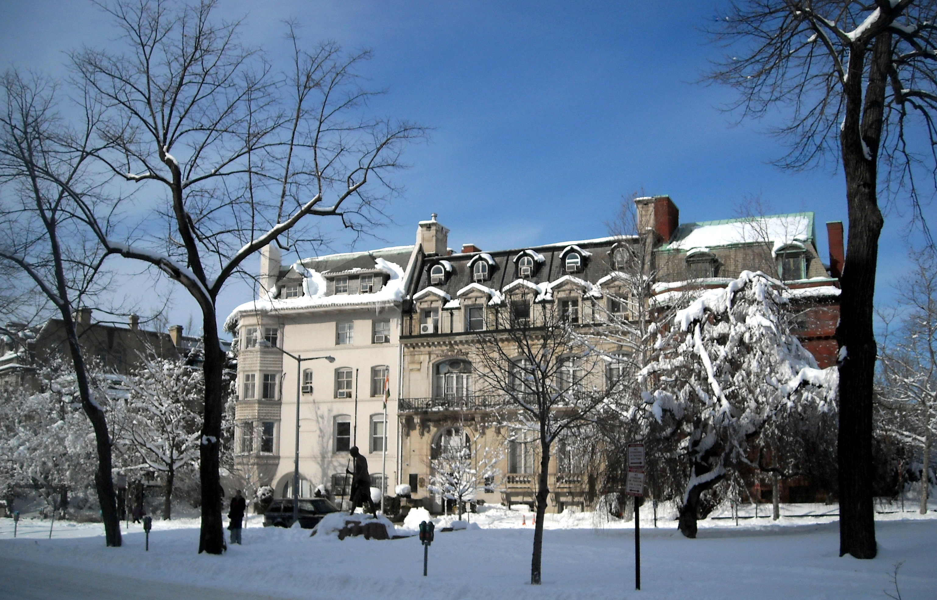 The General John A. Johnson House (left), the Embassy of India (center), and The Phillips Collection (right), located on the 2100 block (north side) of Massachusetts Avenue, N.W., in the Dupont Circle neighborhood of Washington, D.C., following the First North American blizzard of 2010. The east face of the Cosmos Club is visible on the far left. A small, triangular park – which features Gautam Pal's statue of Mahatma Gandhi – is visible in the foreground.